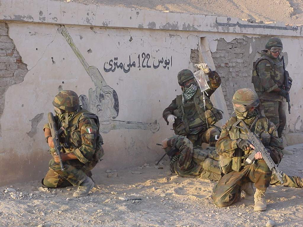 Alpinis from the 4th Alpini paratroopers regiment in Afghanistan; Italian Army.""